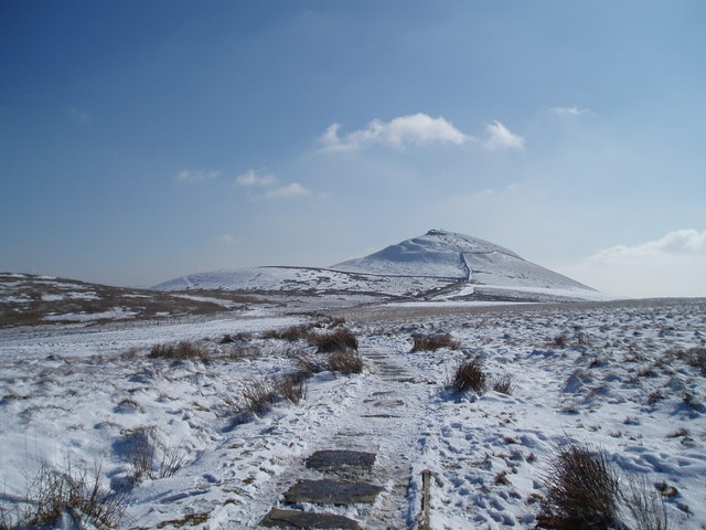 Shutlingsloe Taken from Macclesfield forest footpath in Cheshire.